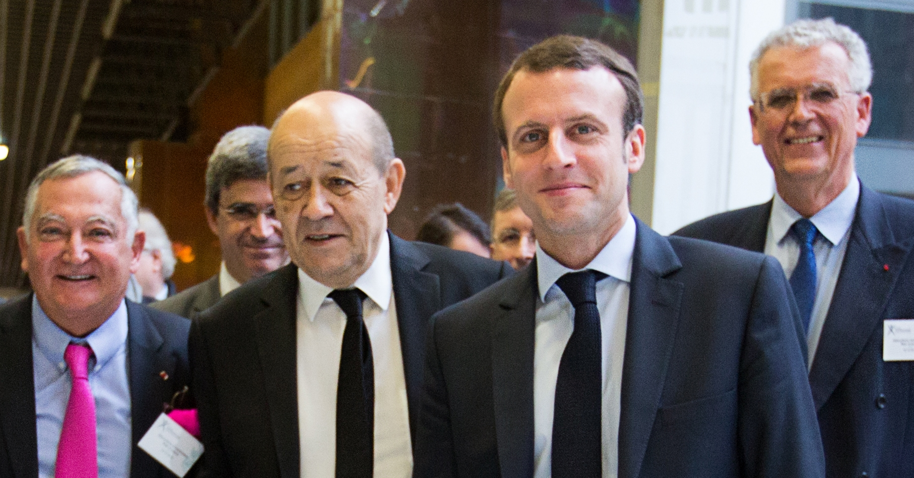 From left to right : Bernard Attali, Jean-Yves Le Drian (Minister of Defence), Emmanuel Macron (Minister of Economy, Industry and Digital Affairs) and Denis Ranque